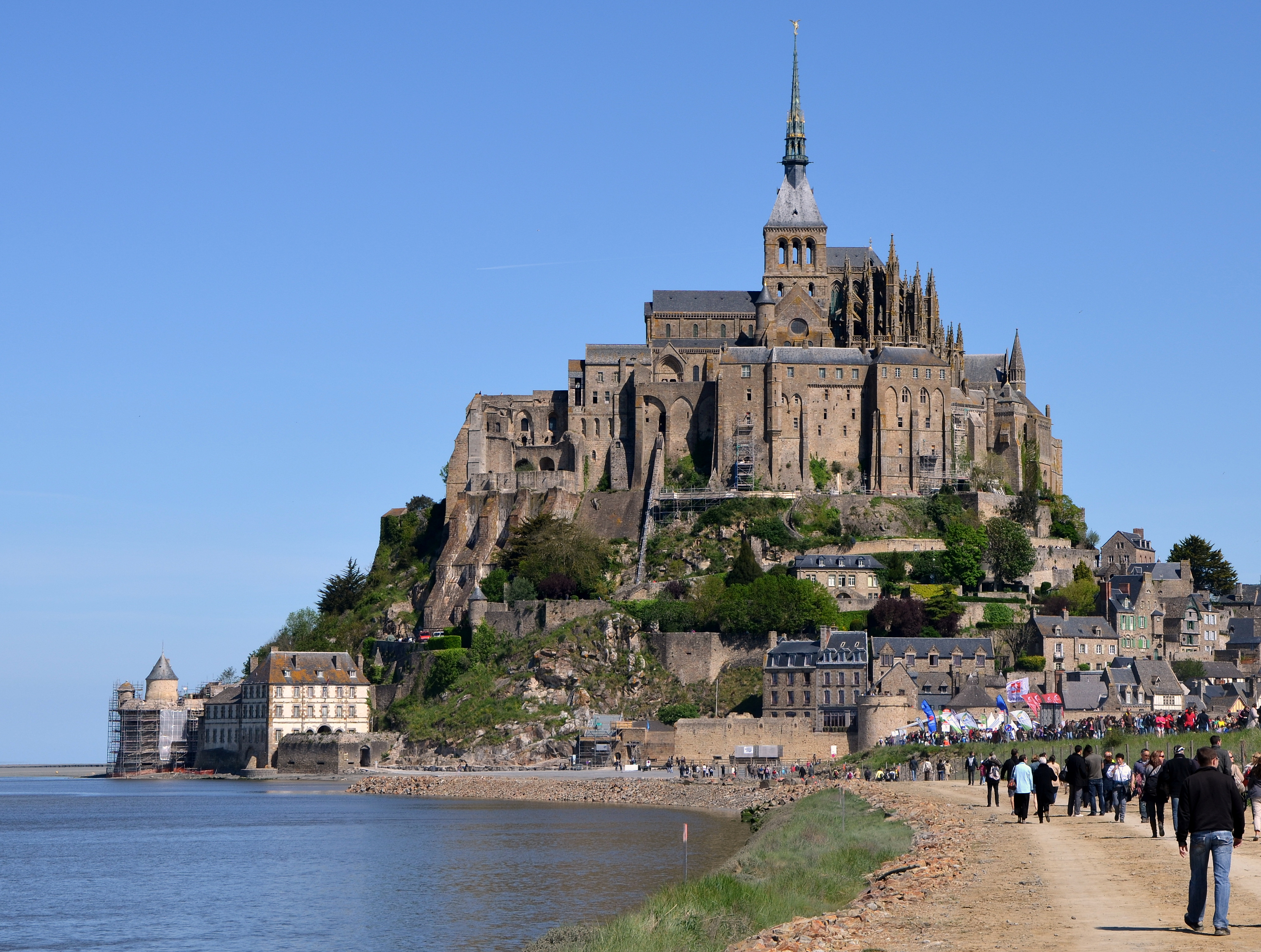 General view of the Mont Saint-Michel